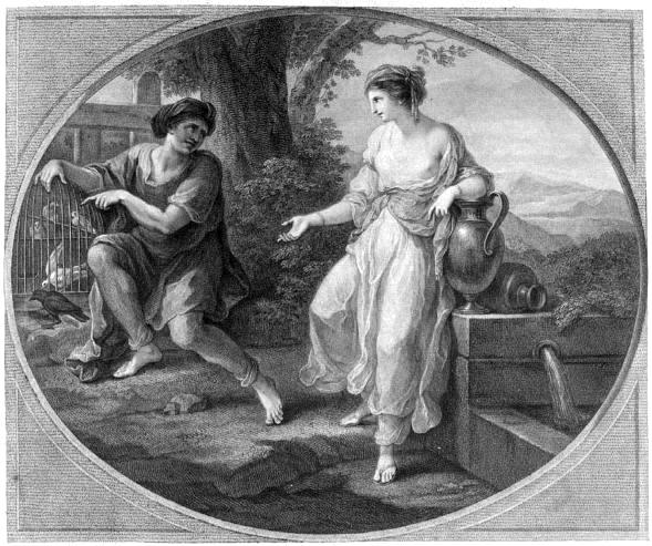 The Beautiful Rhodope in Love with Aesop, an engraving by Francesco Bartolozzi of an original painting by Angelica Kauffman, licensed 1 June 1782.